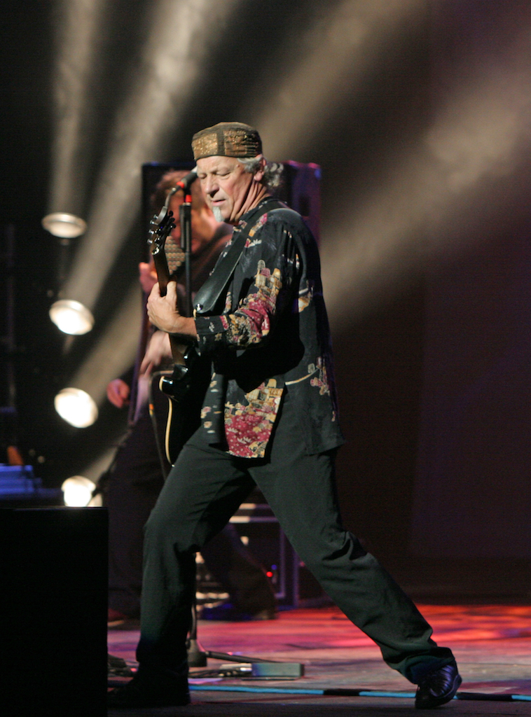 Martin Barre with Jethro Tull, Lyric Opera House, Chicago 2005.